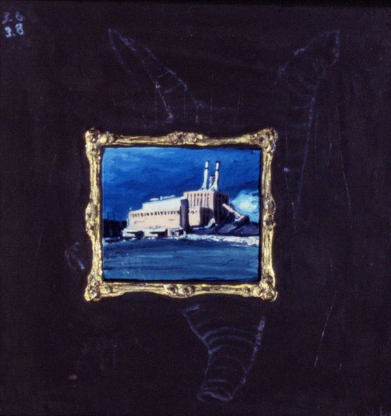 Madonnas of Western New York: Niagara Mohawk, Dunkirk, New York 6″ x 6″ x 3.5″ Oils on Wood, Alberto Rey, power plant painting